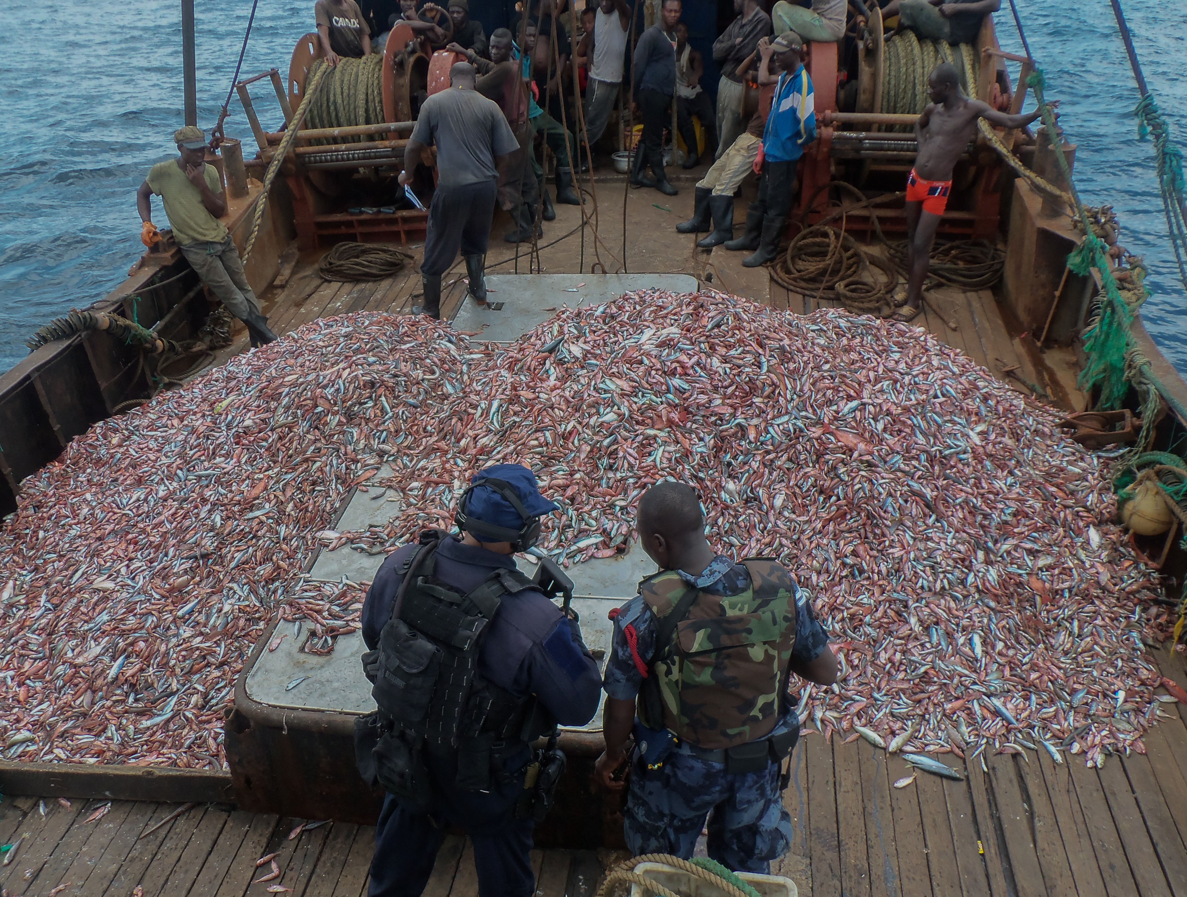 A U.S. Coast Guard law enforcement detachment member and a Ghanaian navy sailor inspect a fishing vessel suspected of illegal fishing during the Africa Maritime Law Enforcement Partnership.The partnership is the operational phase of Africa Partnership Station and brings together U.S. Navy, U.S. Coast Guard, and respective Africa partner maritime forces to actively patrol that partner's territorial waters and economic exclusion zone with the goal of intercepting vessels that may have been involved in illicit activity.